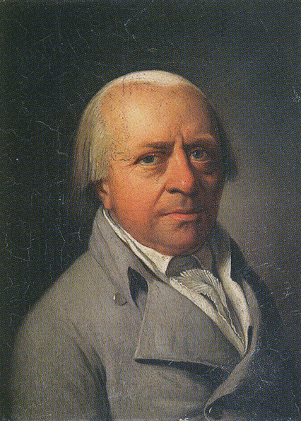 Portrait of Georg Gröning (1745–1825), Mayor of Bremen, Germany, from 1814 to 1821.